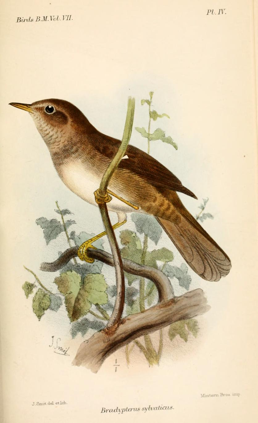 Bradypterus sylvaticus, Knysna Scrub-warbler